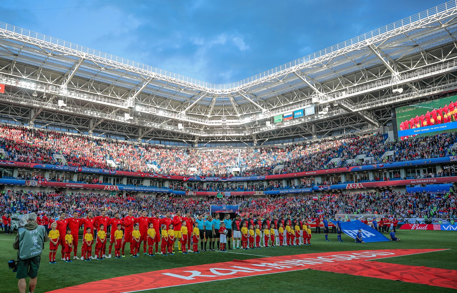 Kaliningrad Stadium